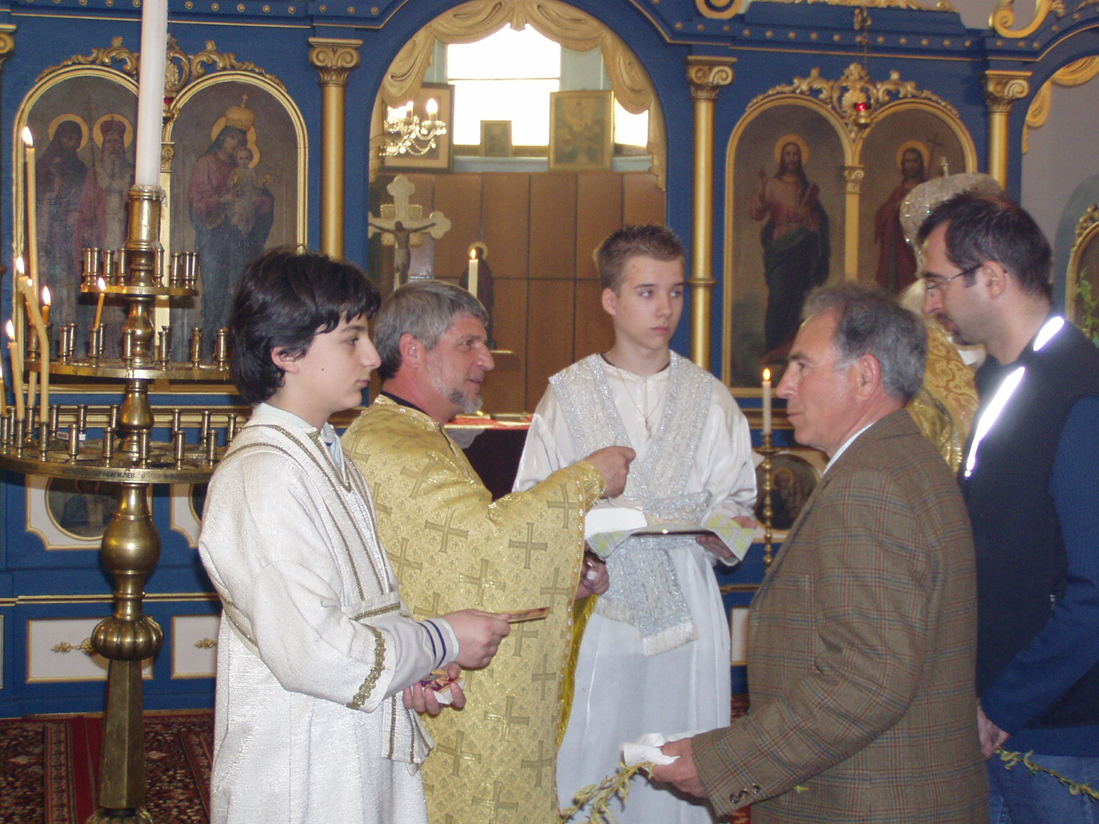 The Bulgarian Orthodox Church of Saints Cyril and Methodius in Ferencváros, Budapest.(Szent Cirill és Szent Metód Bolgár Pravoszláv templom), IX. Vágóhíd utca 15. - Take M3:Nagyvárad tér metro station and take tram 24 one stop to Balázs Béla utca or walk ten min.walk